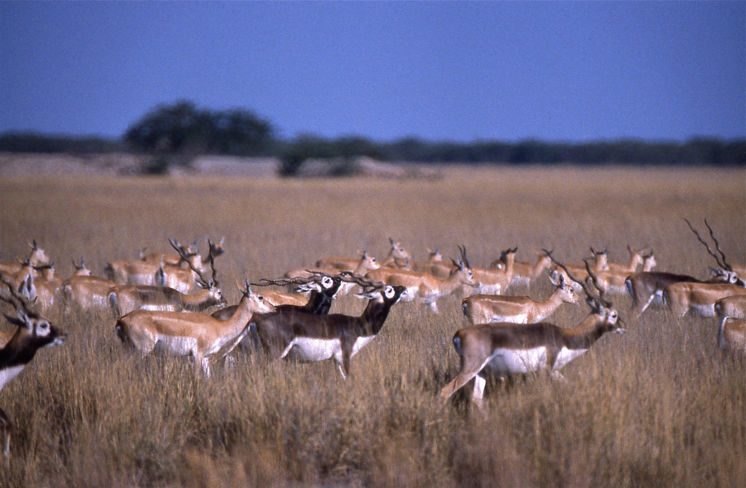 Blackbuck NP, Velavadar, Gujarat, INDIA Scanned Slide from February 1994